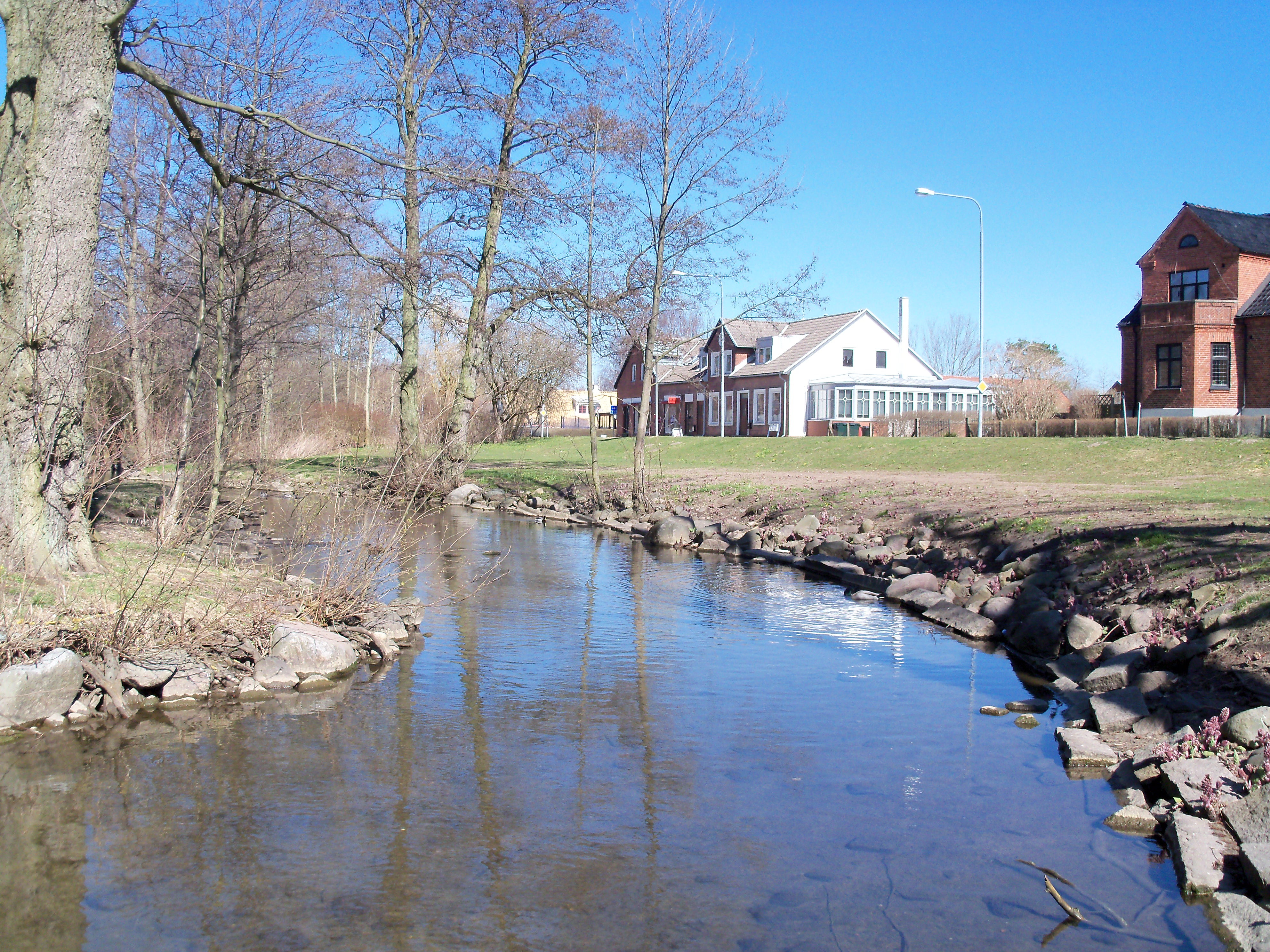 The river in Södra Sandby in Lund Municipality in Skåne County in Sweden, in April 2012.